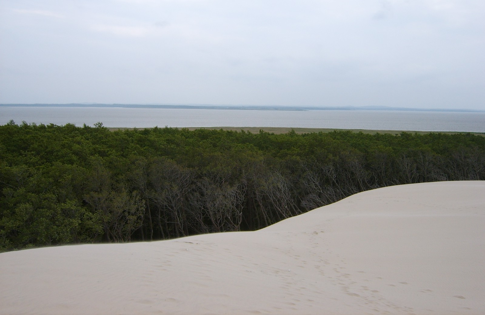 Słowiński National Park; dune and Łebsko Lake